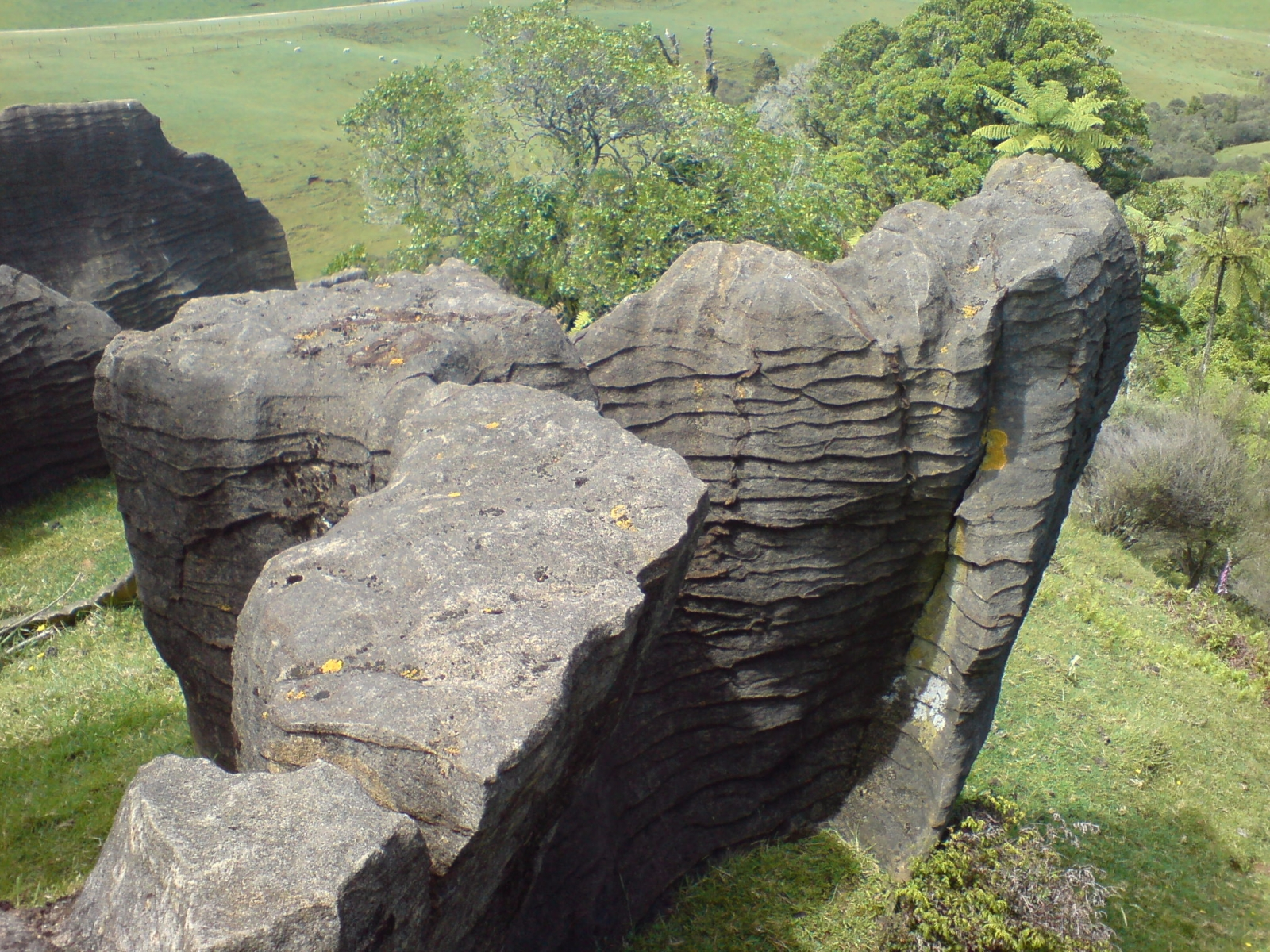 A limestone formation in the Waitomo District of New Zealand.